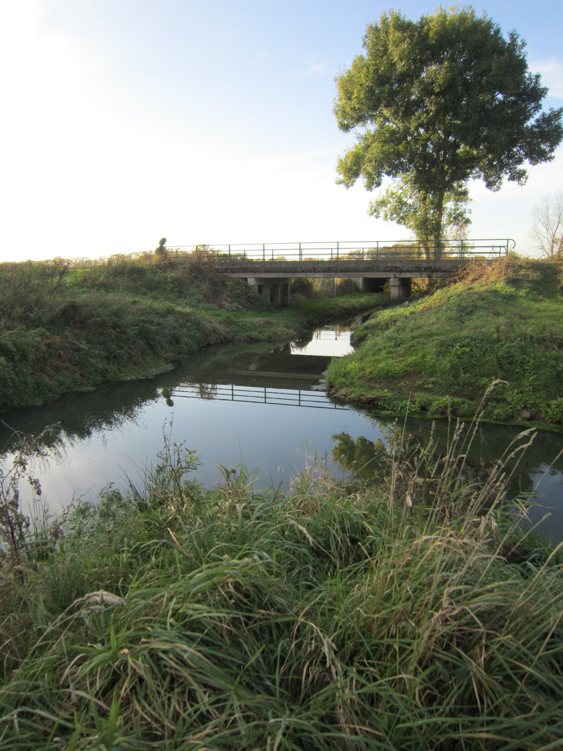 "Dinklager Mühlenbach" in Langwege with the mouth of "Barkhoffsbach" (right); in the background Highway 1 (A 1)